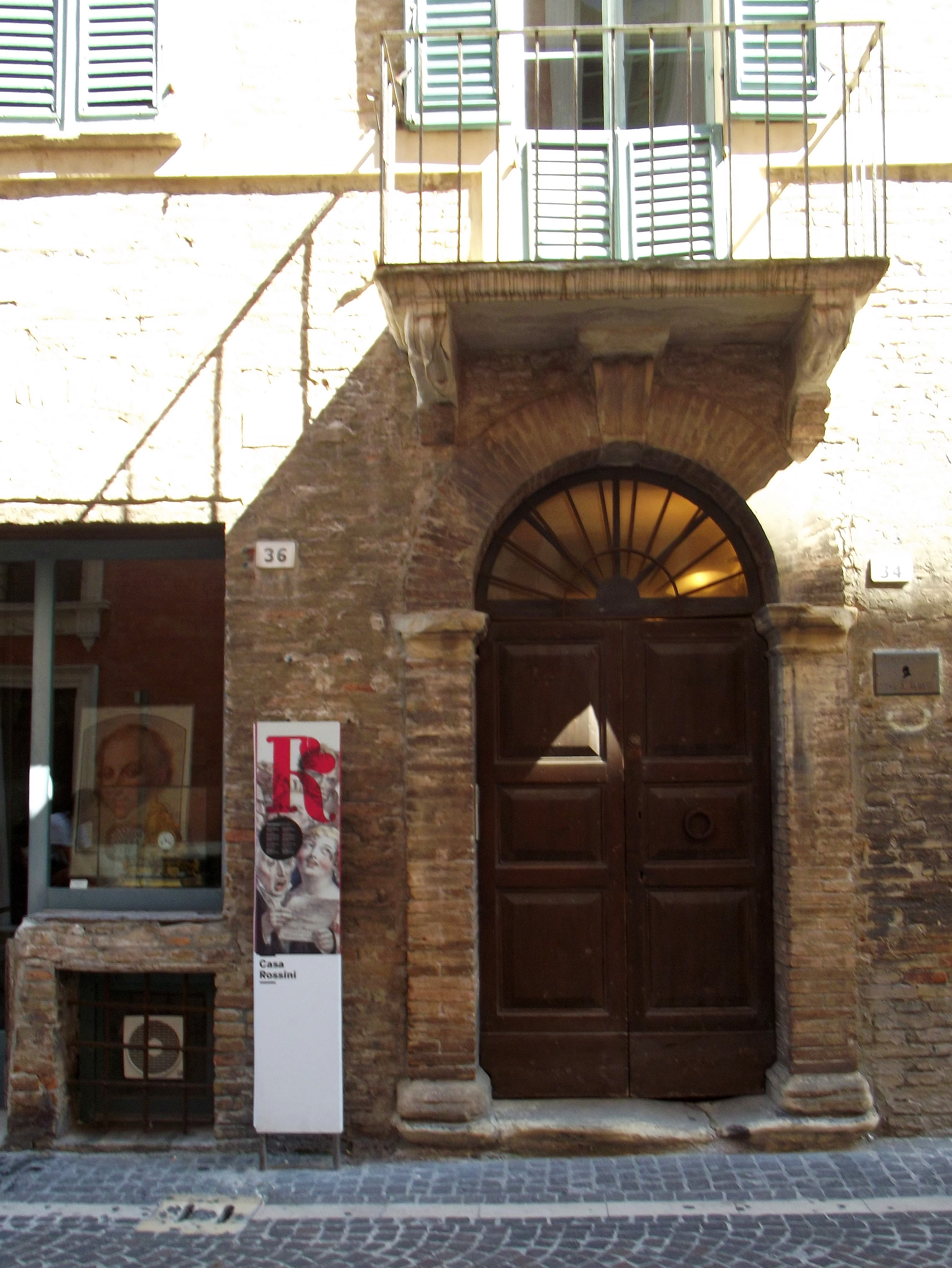 Pesaro: Gioacchino Rossini house